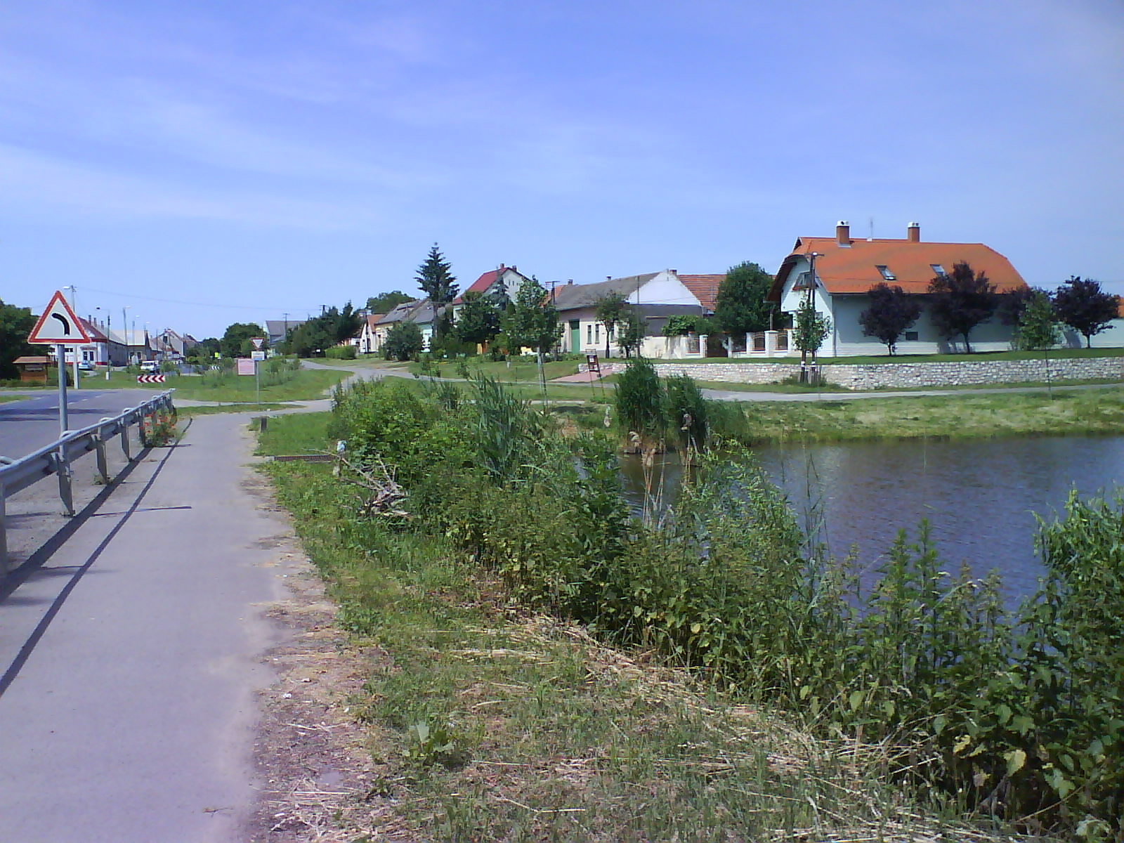 The view of the Hungarian village of Csávoly with Lake Bara in the foreground, June 2008.